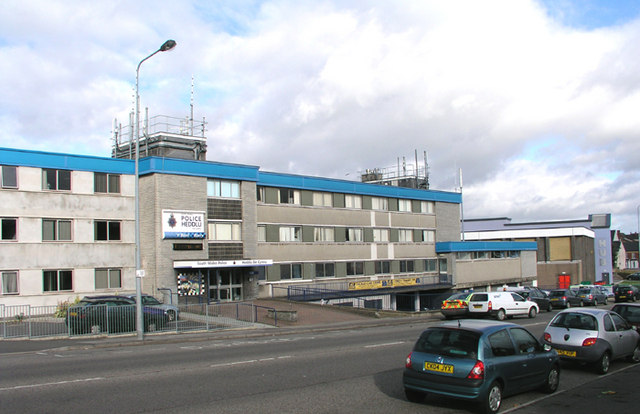 Barry Police HQ, Gladstone Road, Barry The main Police Station serving the Vale of Glamorgan Division